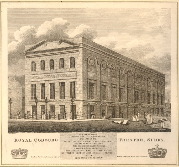 Engraving of the Royal Cobourg Theatre in London, now The Old Vic, constructed in 1818.